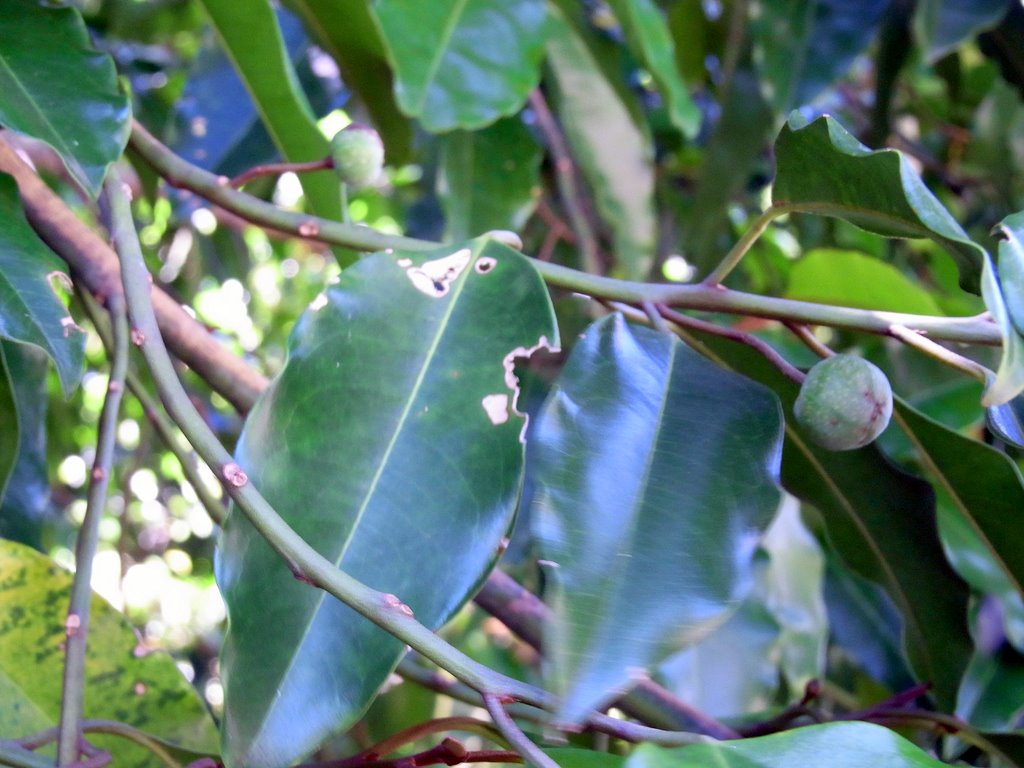 Galbulimima baccata RBG Sydney, Australia